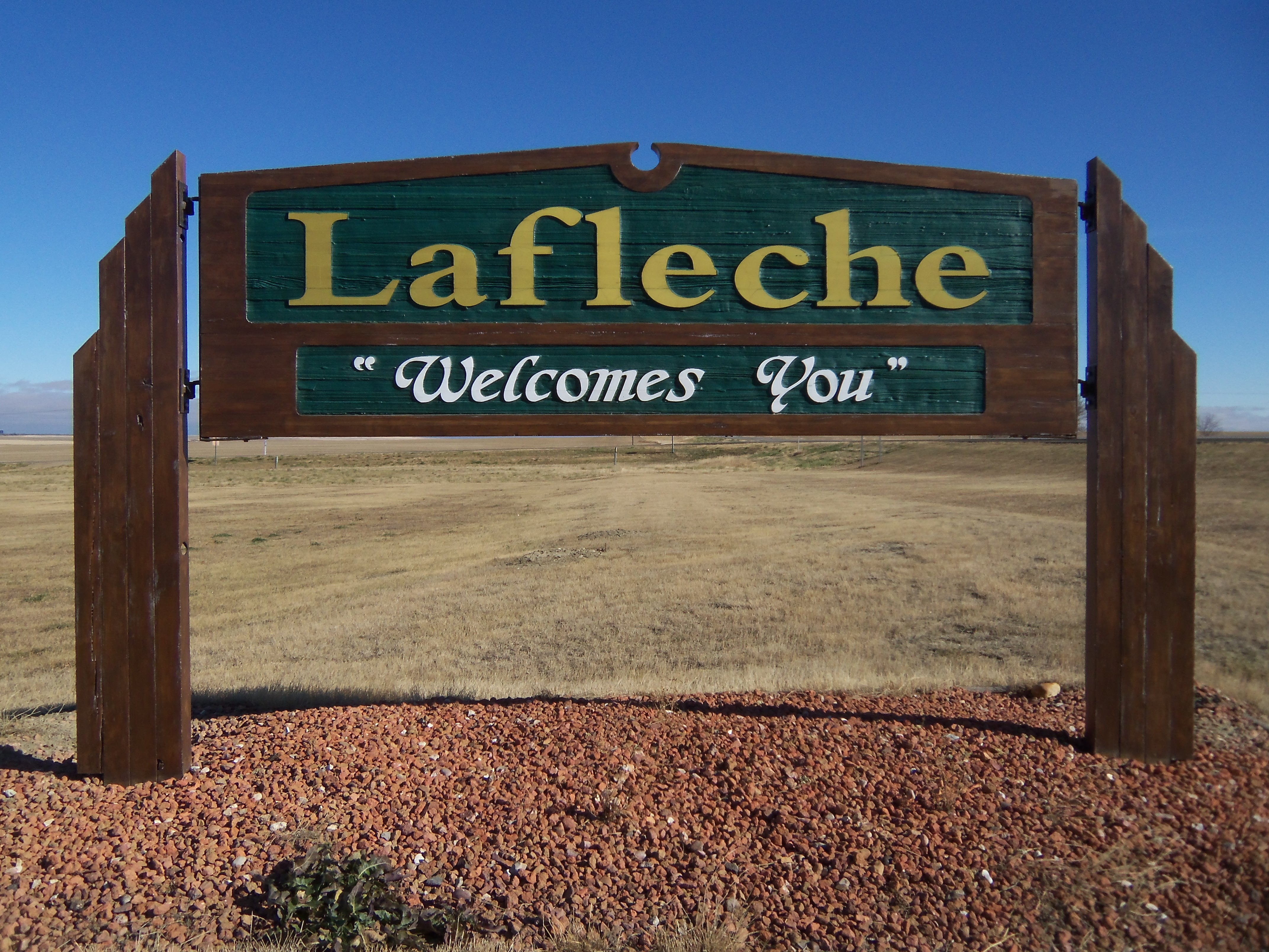 Town of Lafleche welcome sign